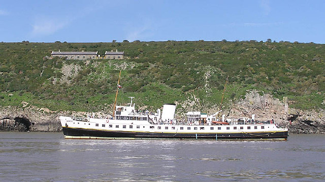 Steepholm, the old barracks. m.v. Balmoral at anchor. Taken from the boat that lands you on Steepholm